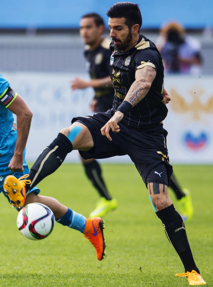 Blagoy Georgiev